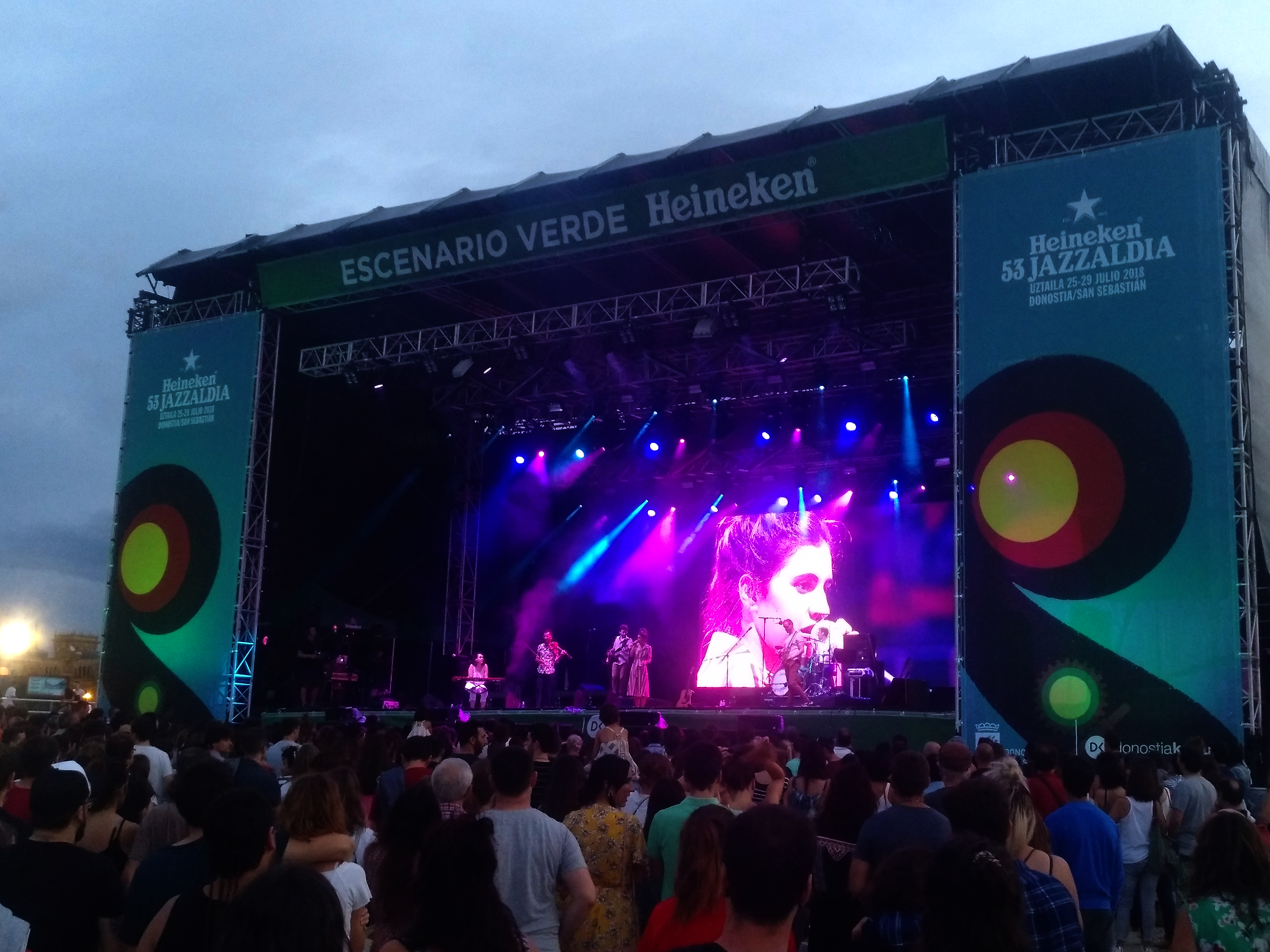 Izaro Andres playing at Donostia Jazz Festival, 26th July 2018